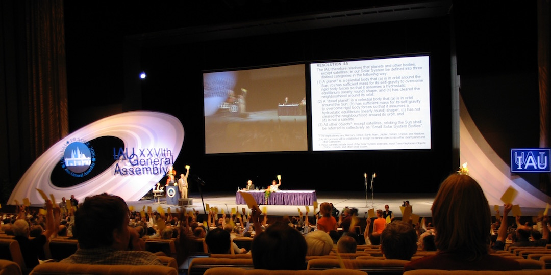 Plenary session of the IAU General Assembly on August 24, 2006 in Prague, during which the vote was cast on new definitions for Planets and Dwarf Planets in the Solar System